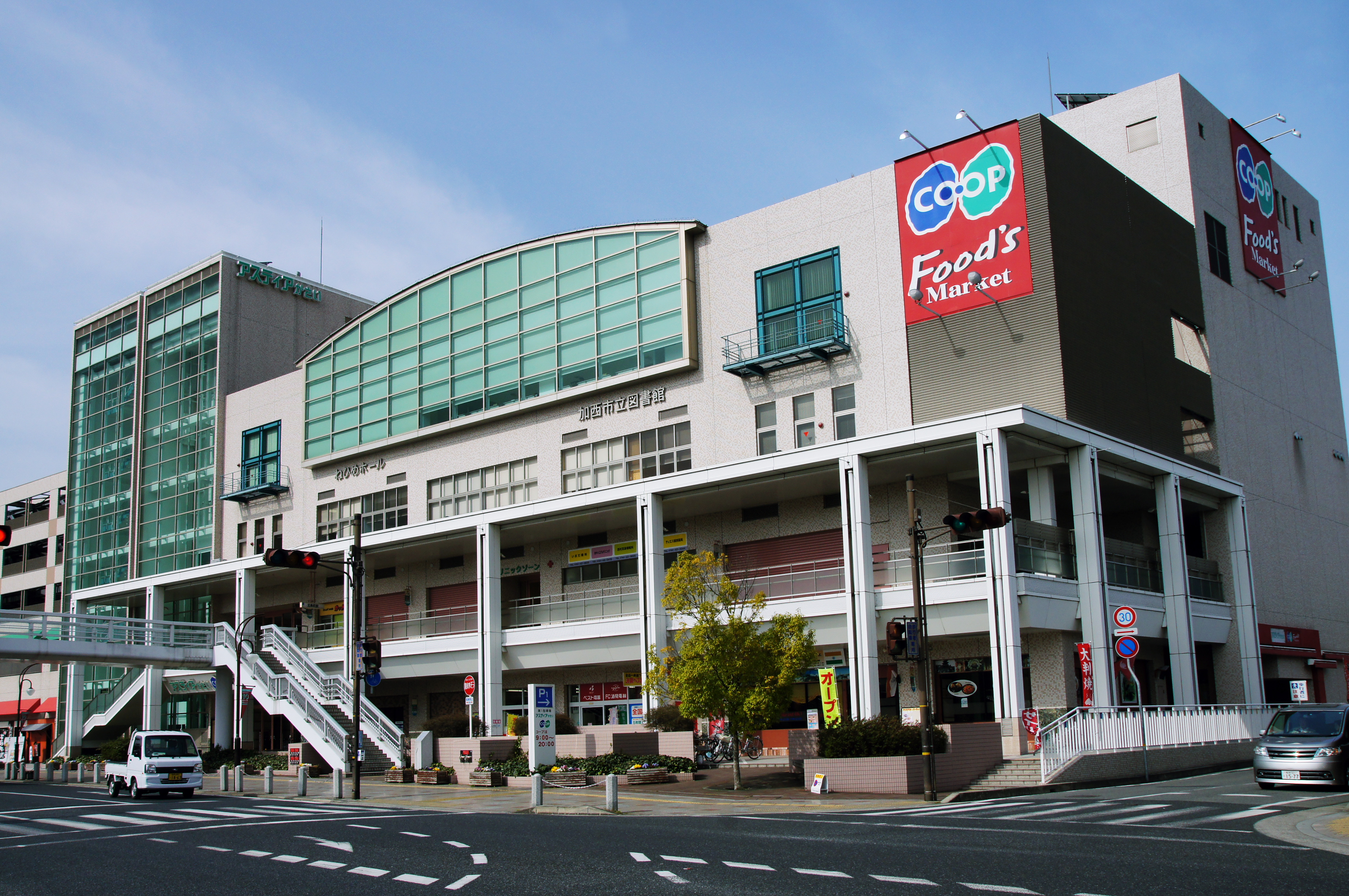 Asuteer Kasai (Kasai City Library, Nehime Hall) in Kasai, Hyogo prefecture, Japan.